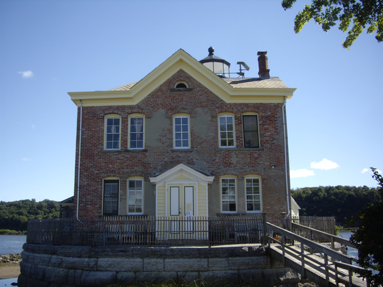 Saugerties Lighthouse